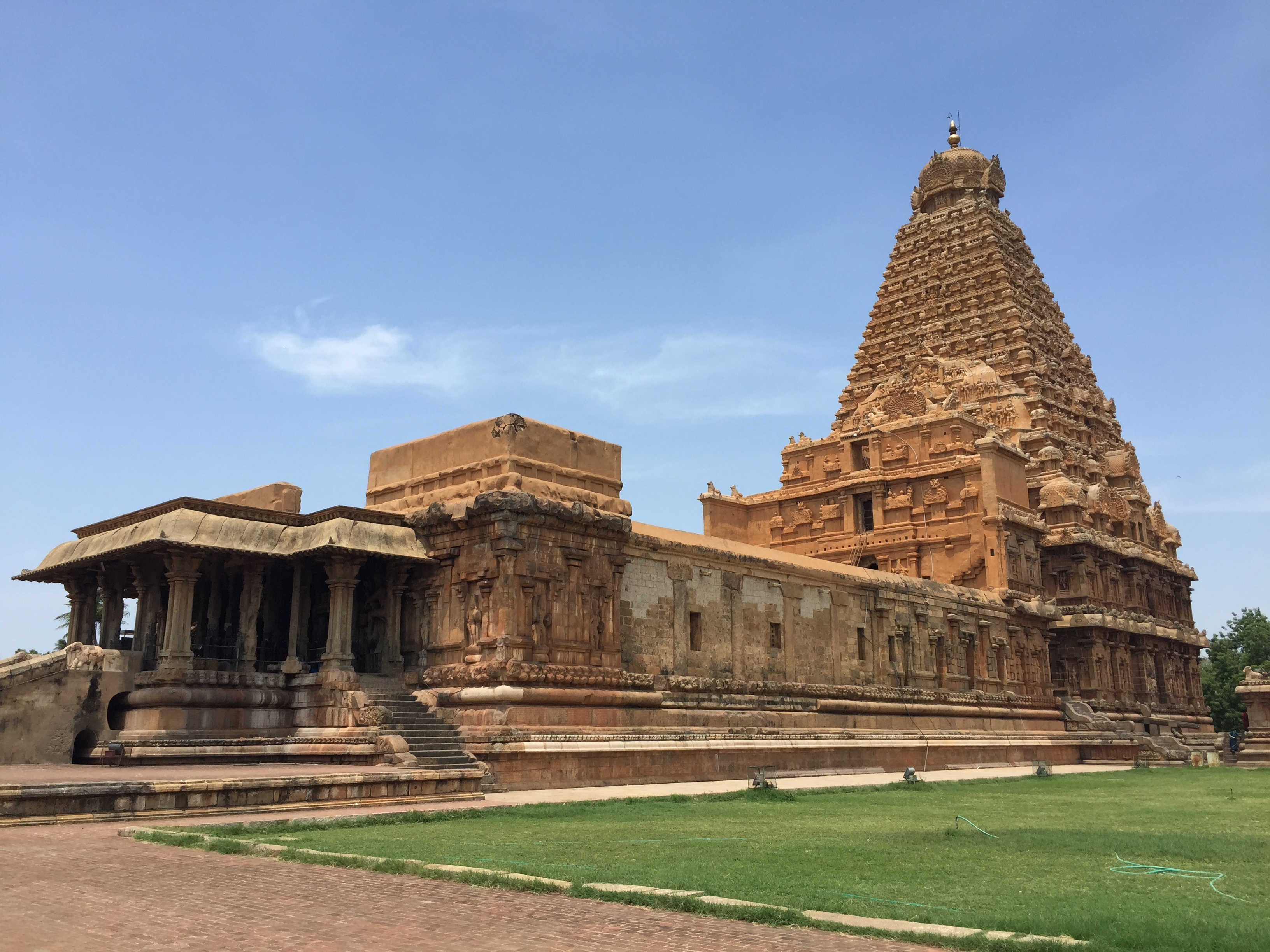 A picture of the Brihadeeswarar Temple from the right side.